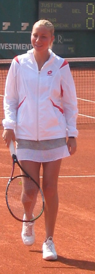 Alona Bondarenko at the Tier II J&S Cup held in Warsaw, Poland (losing 6-1, 6-3)